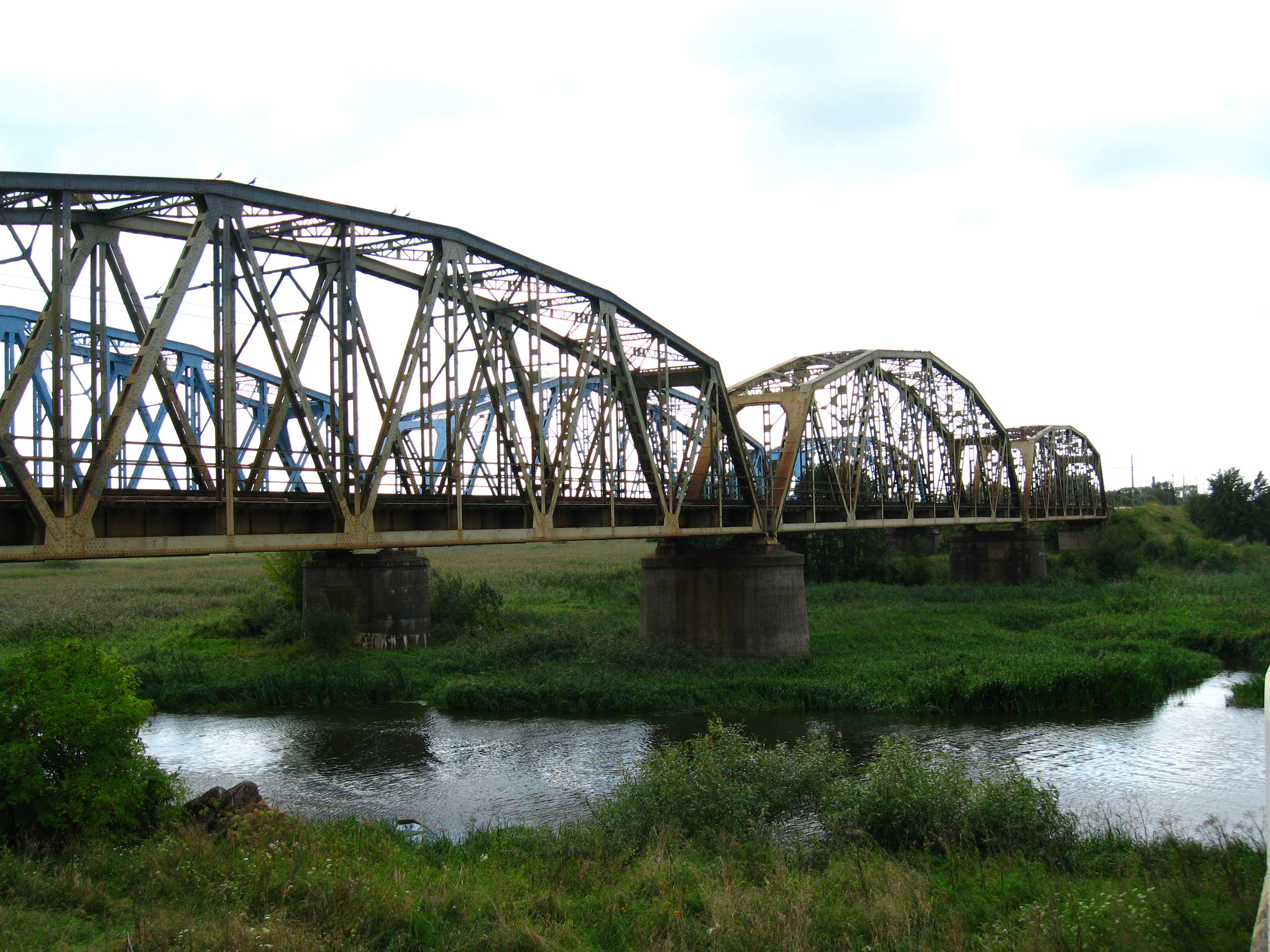 Railroad bridges over Narew river